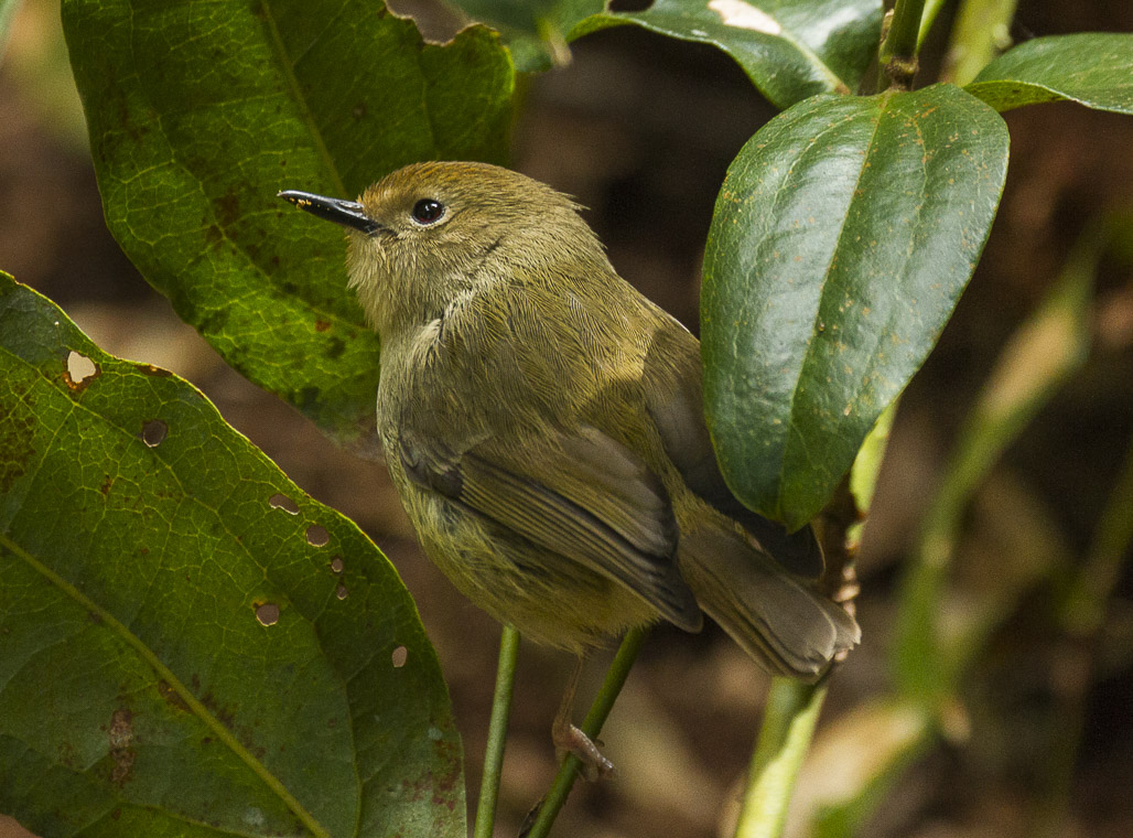 Large-billed Scrubwren - Lamington NP - Queensland_MG_3681